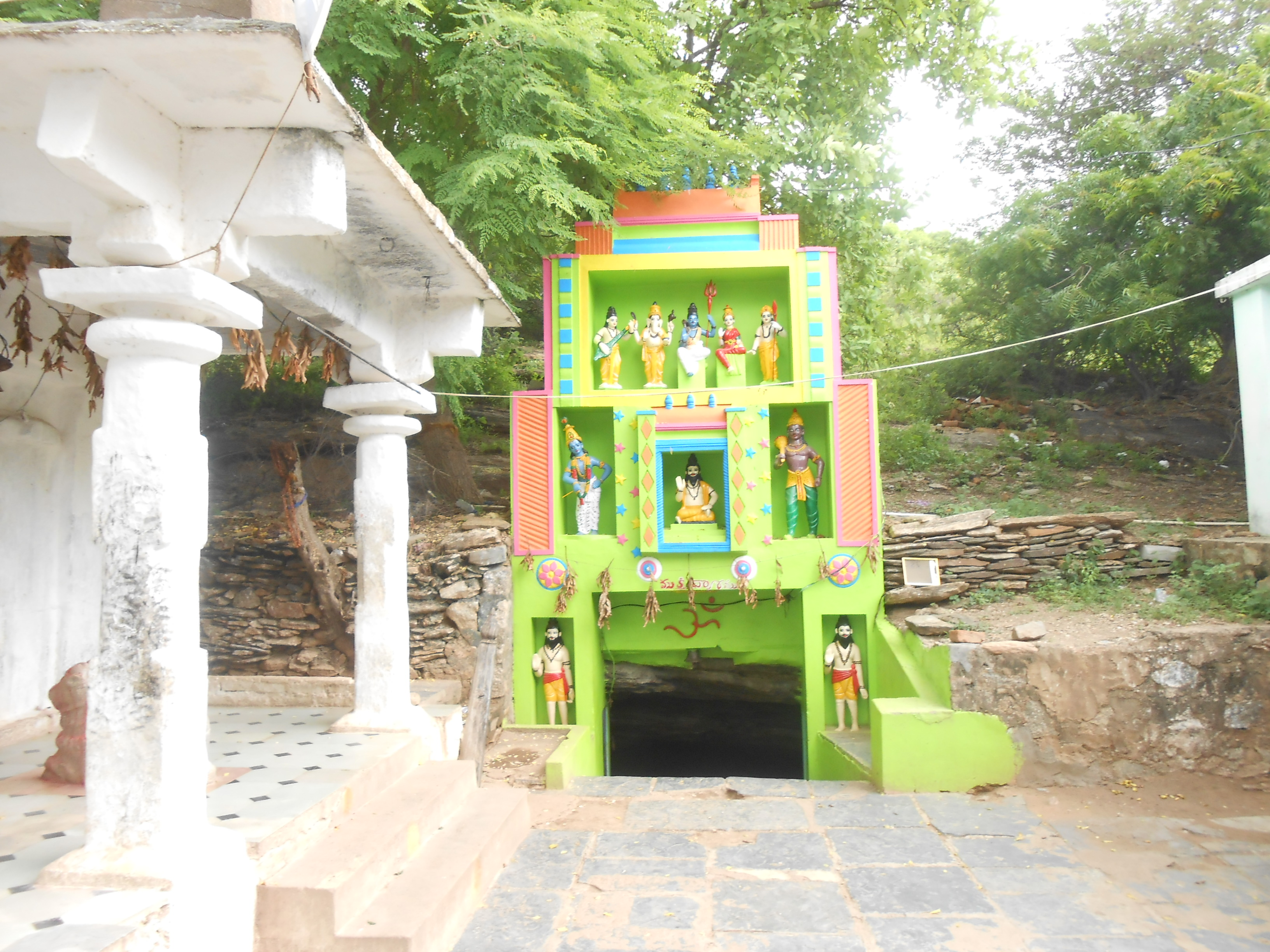 this is guttikonda cave temple